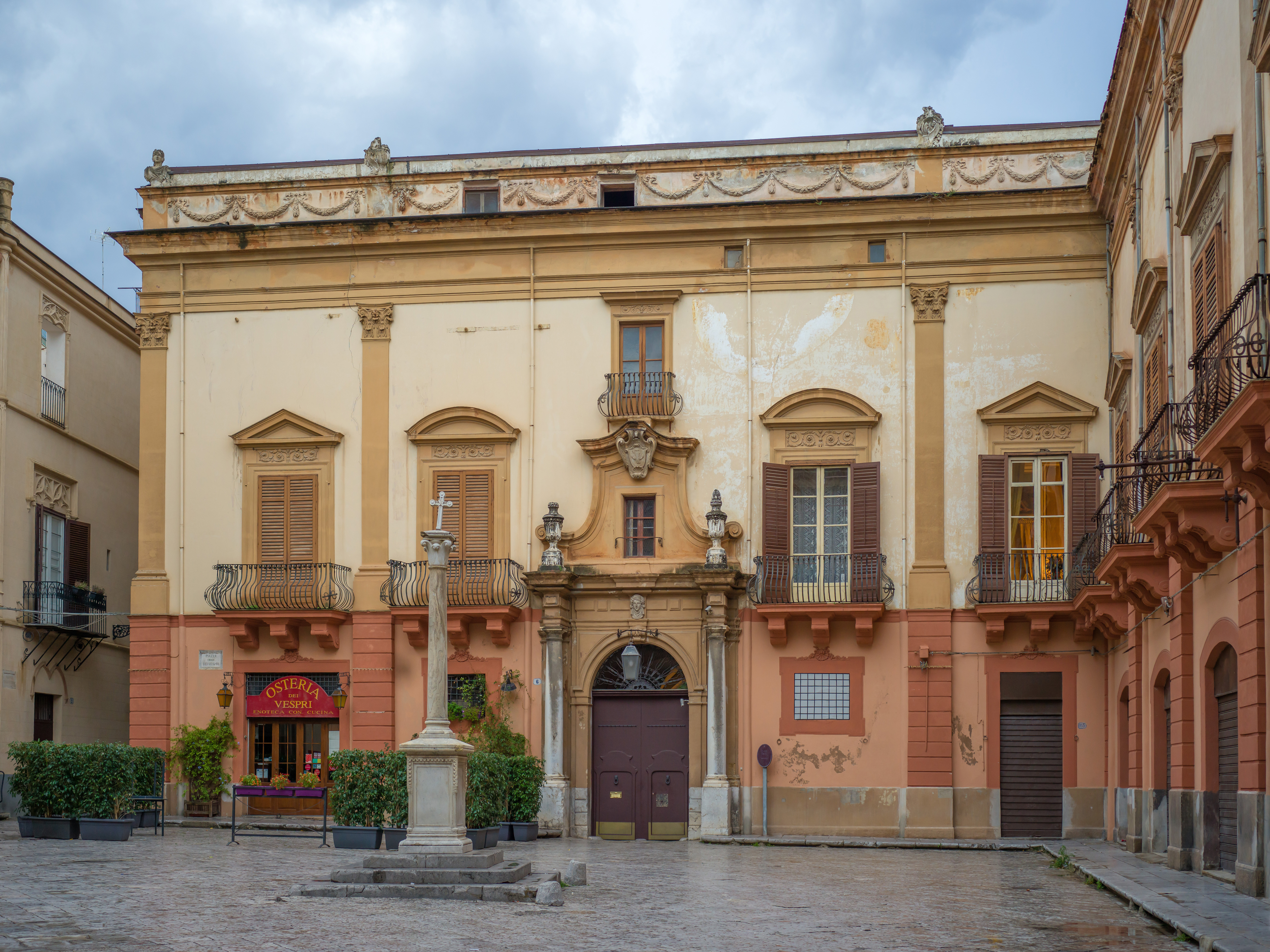 Palace Palazzo Valguarnera-Gangi on the Piazza Croce dei Vespri square in Palermo.